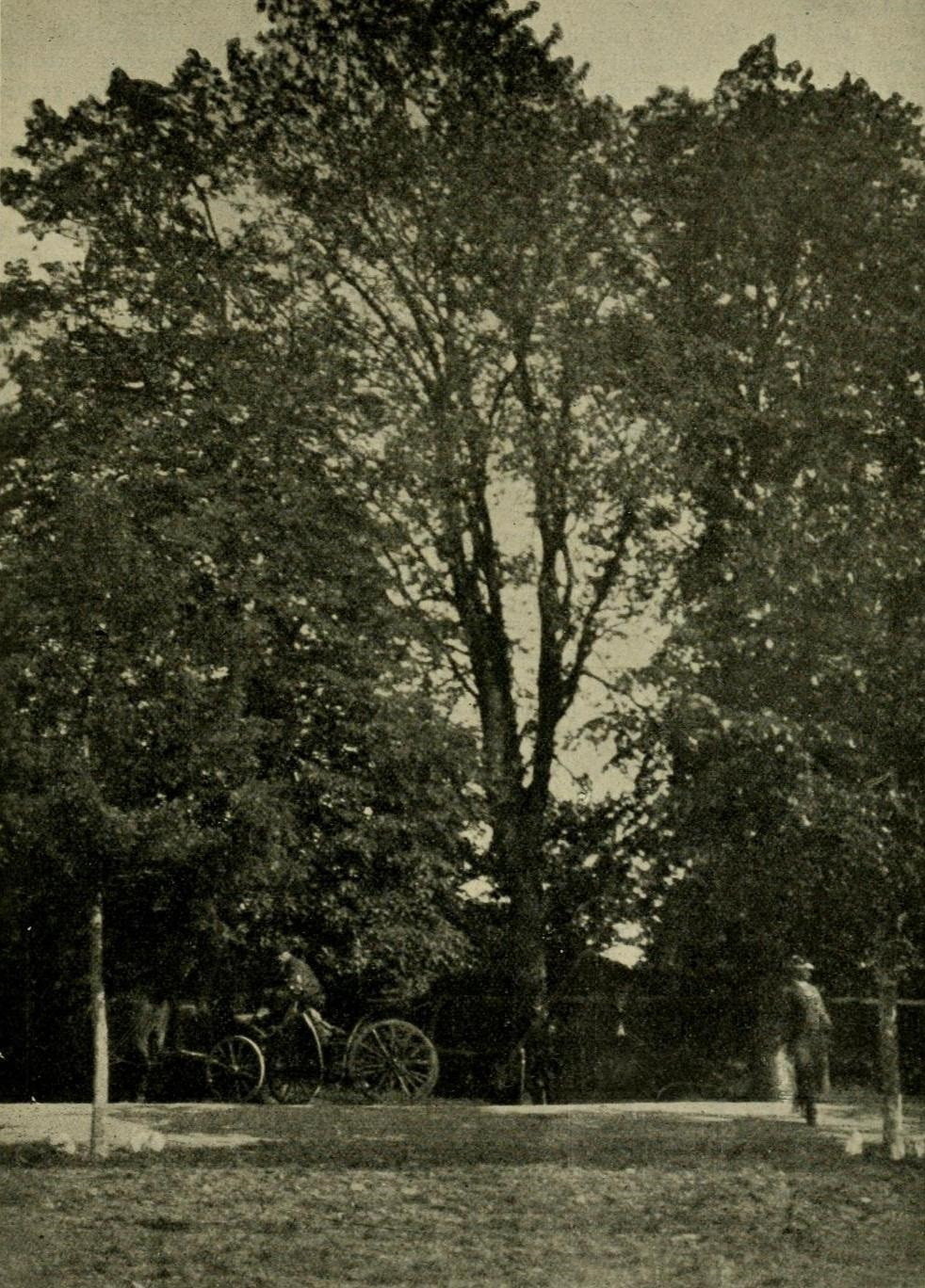 Sorbus torminalis (de-Elsbeere; en-Wild service tree; pl-Jarząb brekinia) in the Arboretum Wirty (Poland) in 1911.